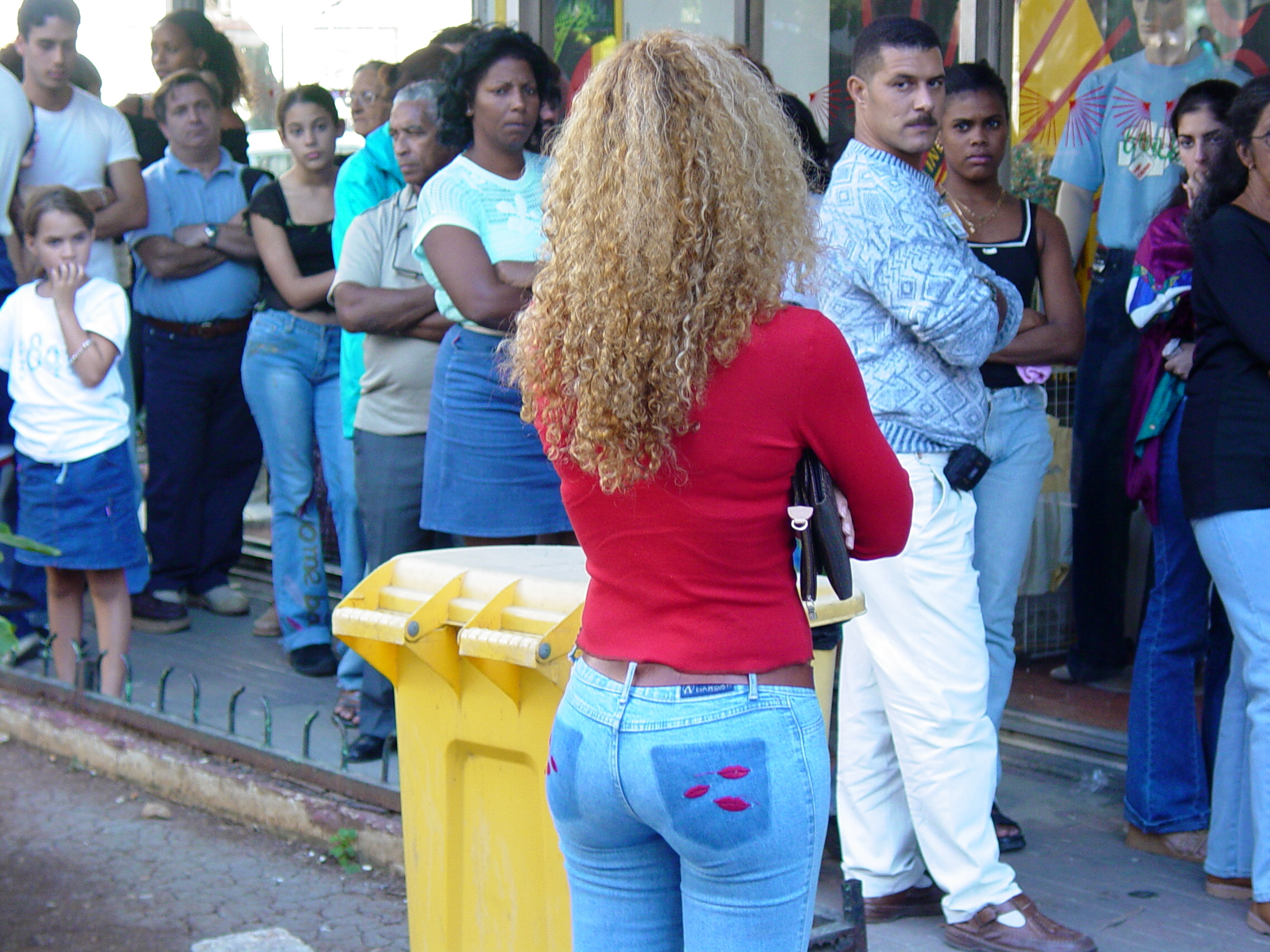 Young woman and queue, Havana, Cuba. December 2002.